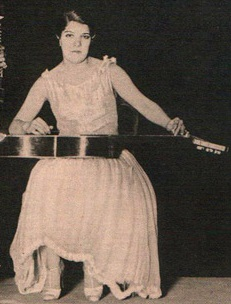 Zoraida Corbani- actriz y bailarina argentina